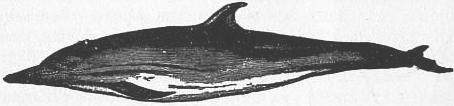 The Common Dolphin (Delphinus delphis).